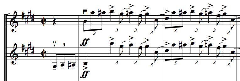 Symphony No. 2, composed by Sergei Rachmaninof in 1906-07. Movement 1.